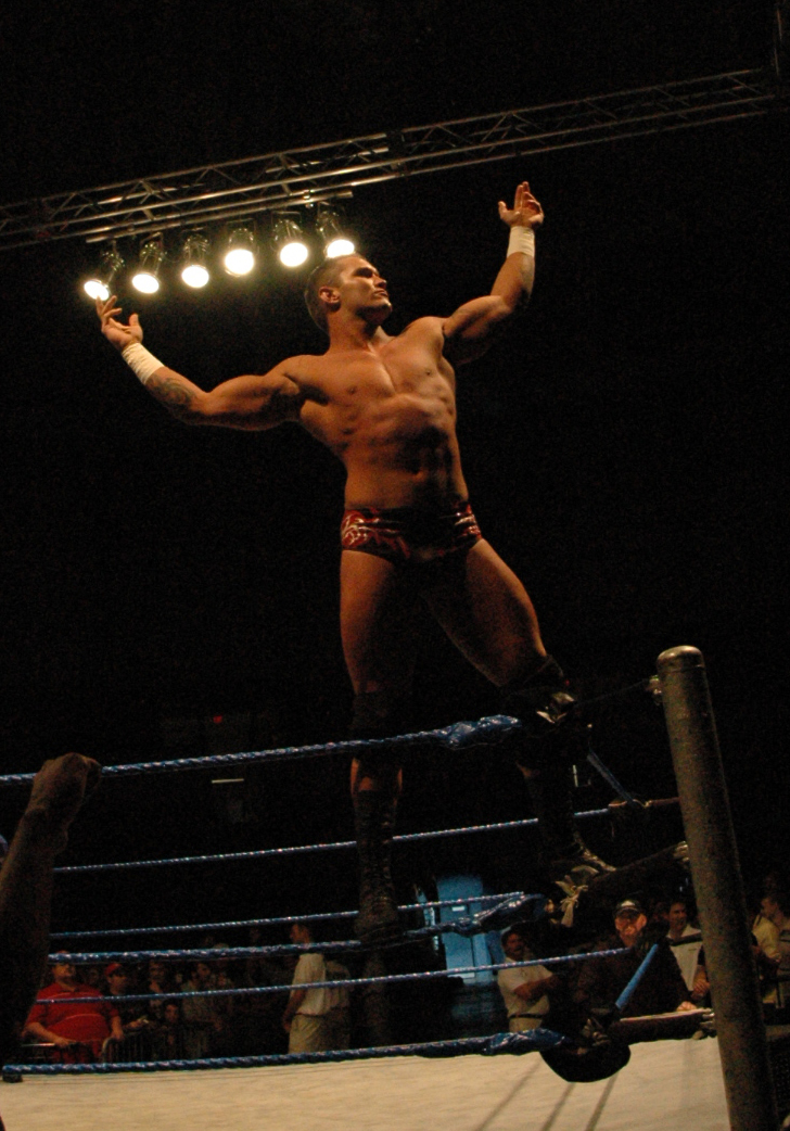 Randy Orton poses at a WWE show (8-29-2005) charleston sc